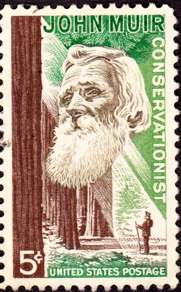 John_Muir_1964_Issue-5c.jpg